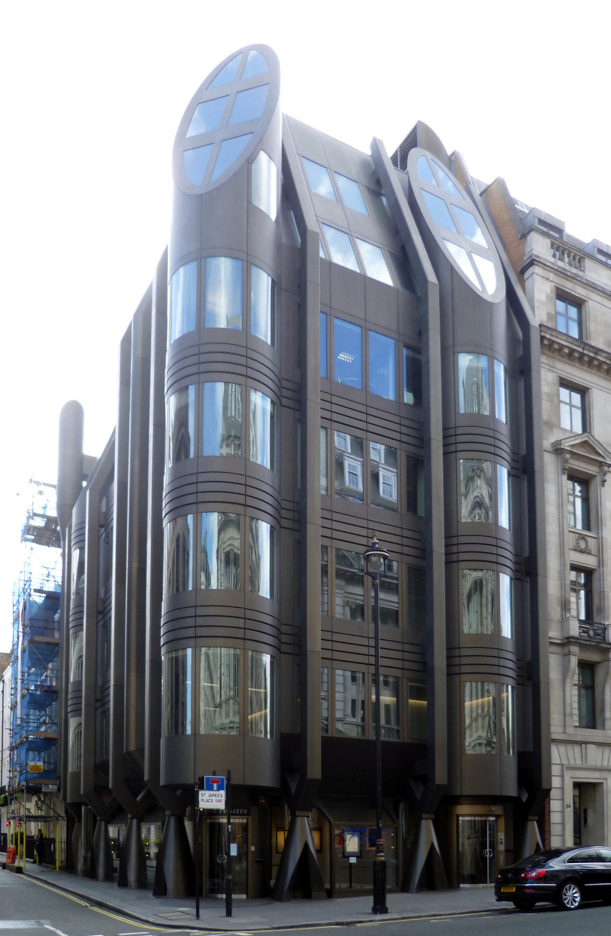 Target House, 66 St. James's Street, London SW1A 1NE